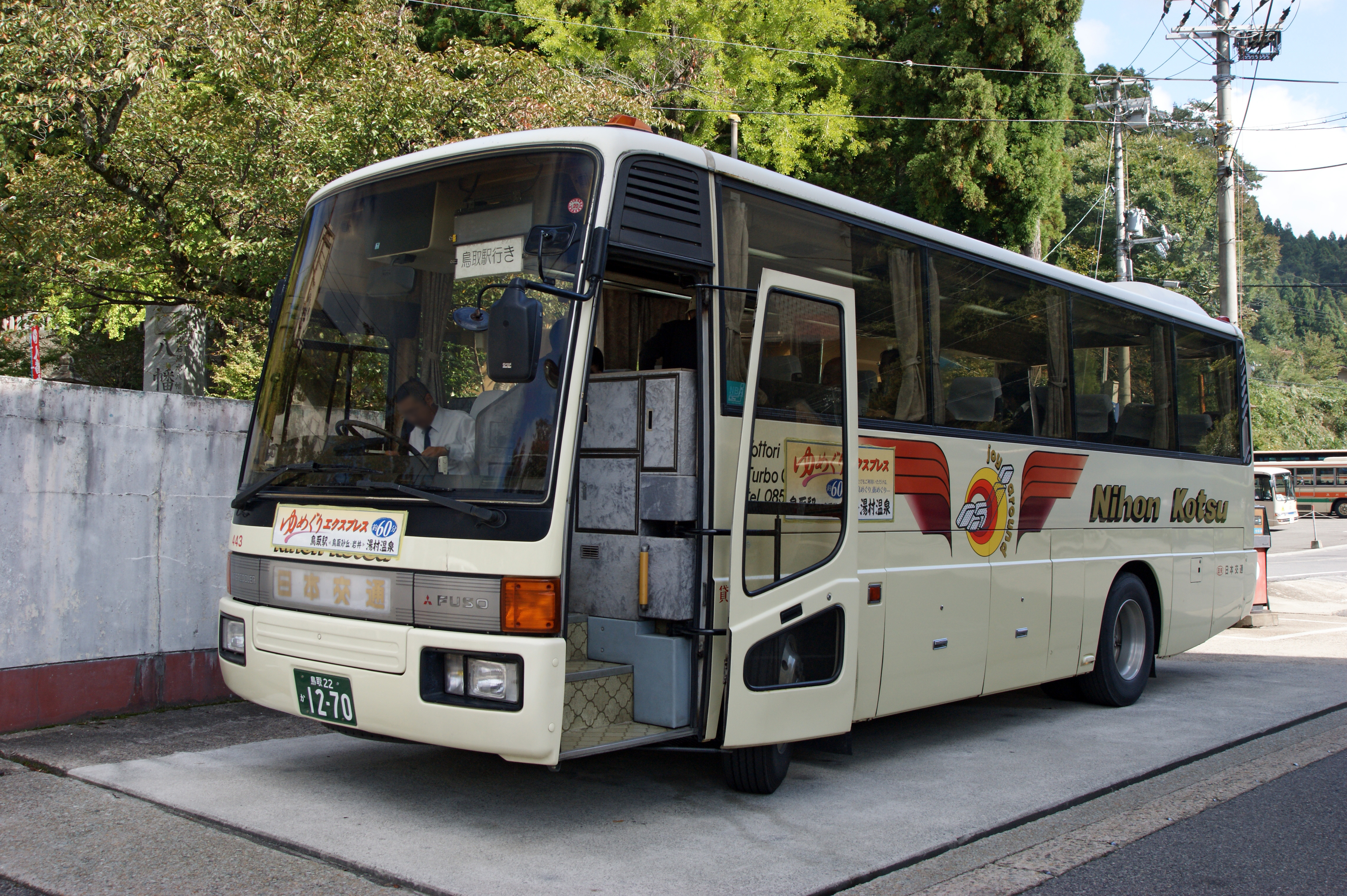 Zentan Bus Yumura Onsen office, Shinonsen, Hyogo prefecture, Japan